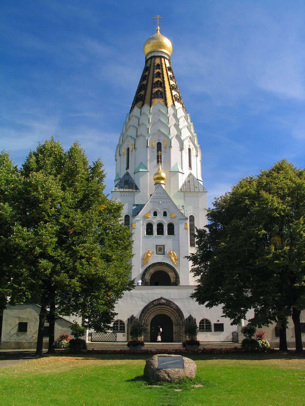 Russian Orthodox Church in Leipzig. Architect: Vladimir Alexandrovich Pokrovsky (1871-1931)